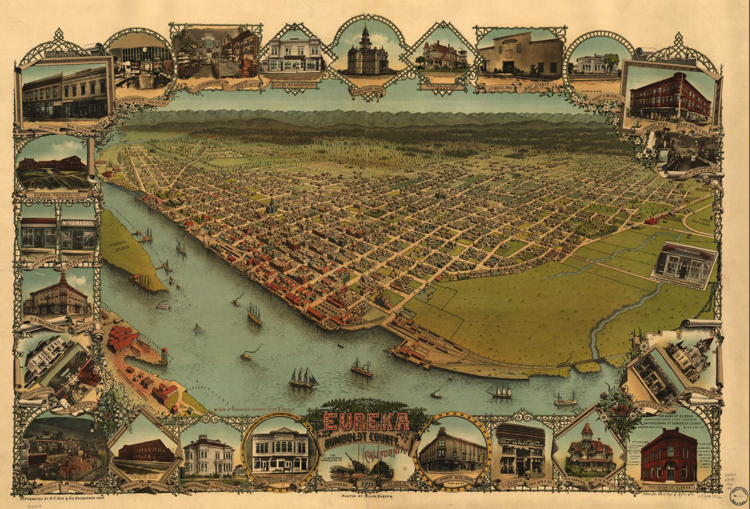 A.C. Noe's map of Eureka, California in 1902. Also called the Eureka Bird's Eye View Perspective. Map 65 X 96 cm.